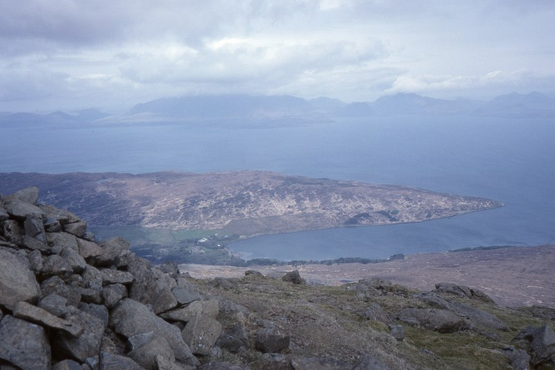 Loch Scresort from the summit of Hallival The green fields around Kinloch Castle stand out, with the Cuillin of Skye across the water.